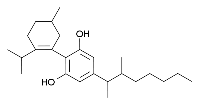 Structure of CBD-1,2-DMH